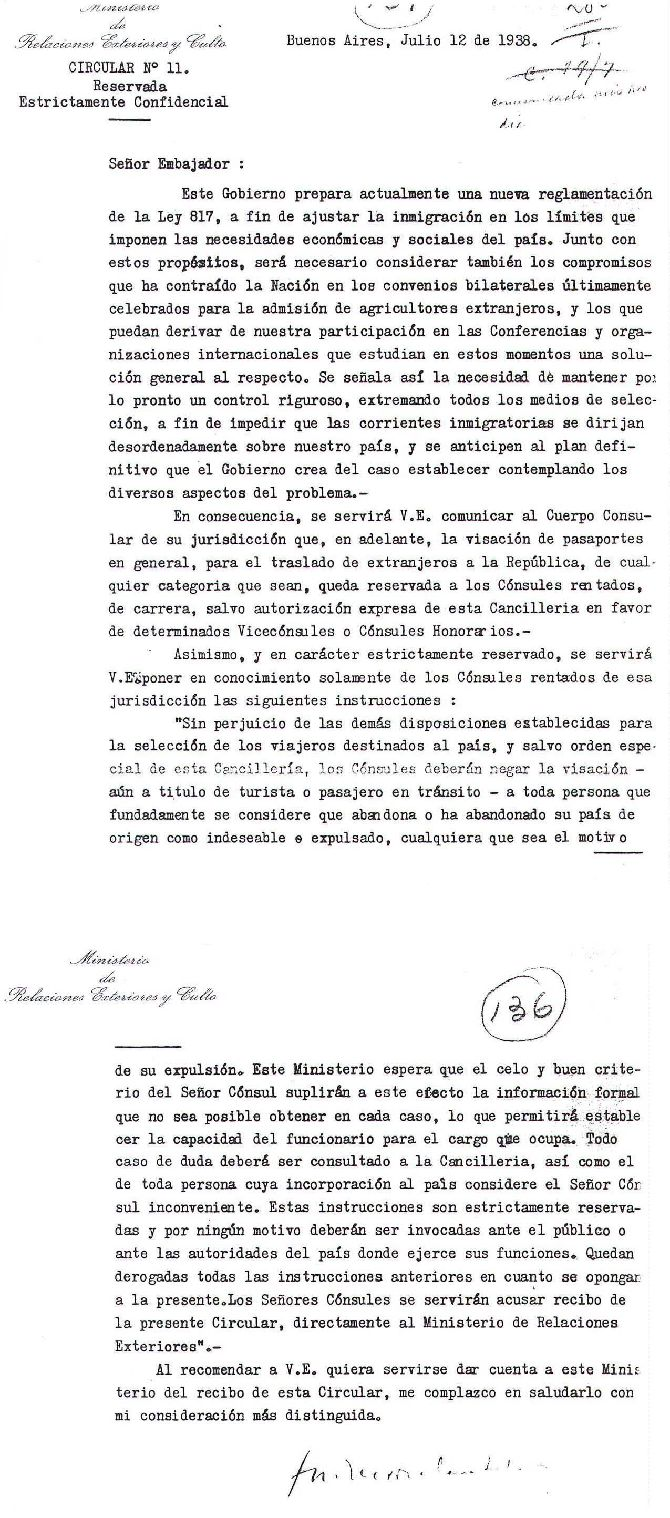 The "Circular 11" was designed specifically to stop the entry into Argentina to European Jews fleeing the Nazi regime.